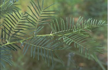 Bark: Trunk of A. sieberiana var. woodii with grey bark, and pale cream wood underneath with a green layer between.